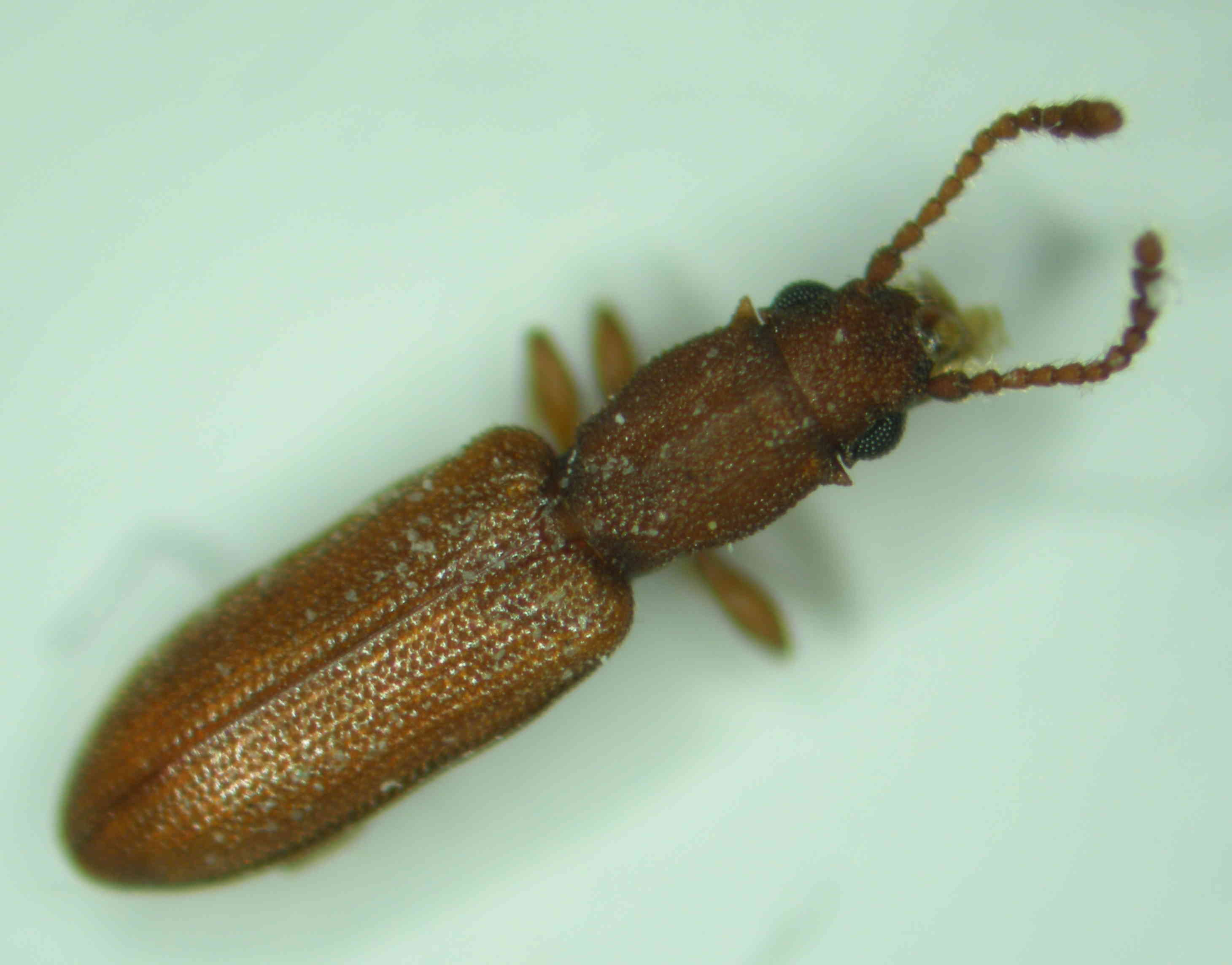 Silvanus unidentatus (Familie Plattkäfer: Silvanidae)